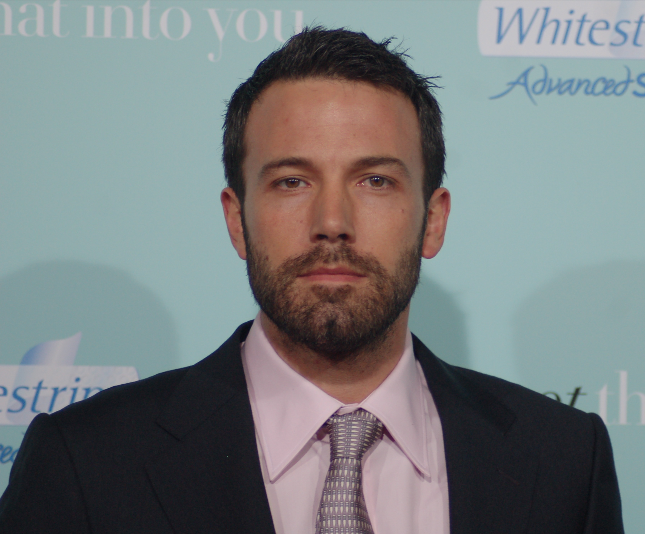 Ben Affleck at the premiere for He's Just Not That Into You.